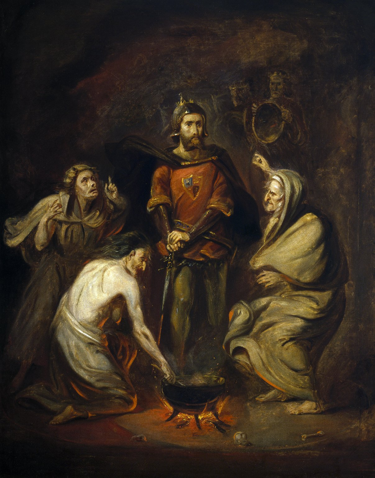 From Act IV, Scene 1 of William Shakespeare's Macbeth